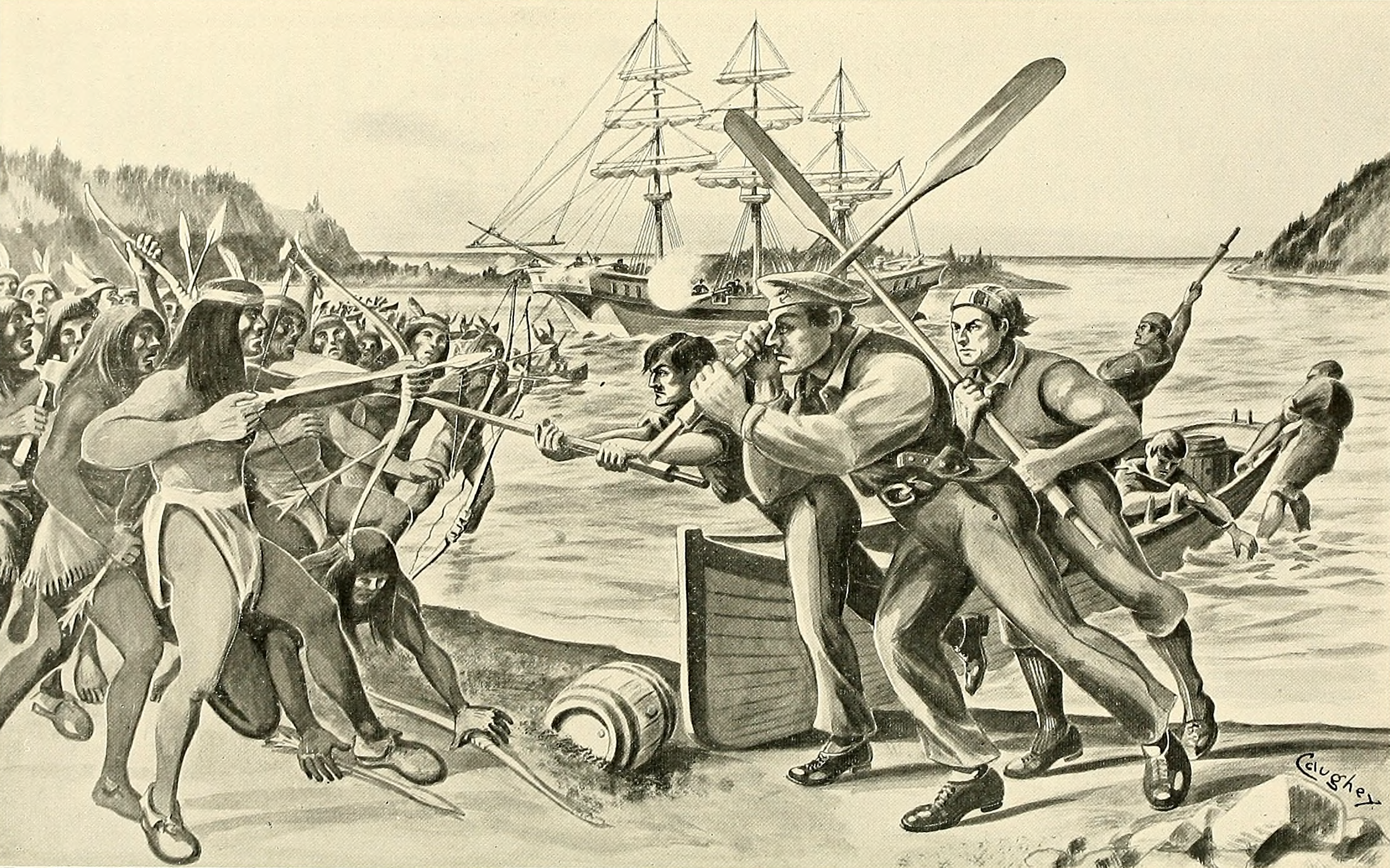 Image from Joseph Gaston's Centennial History of Oregon